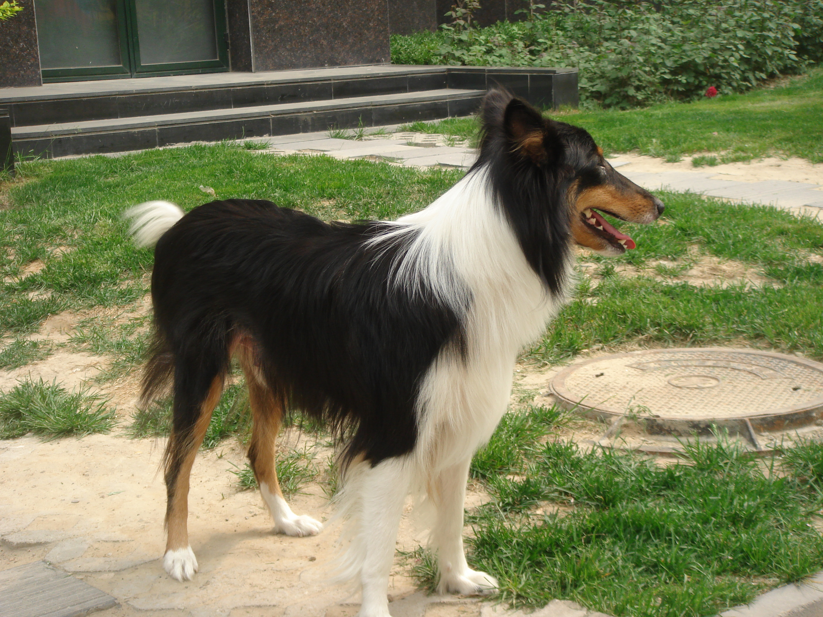 An adult tri-color Scotch collie.